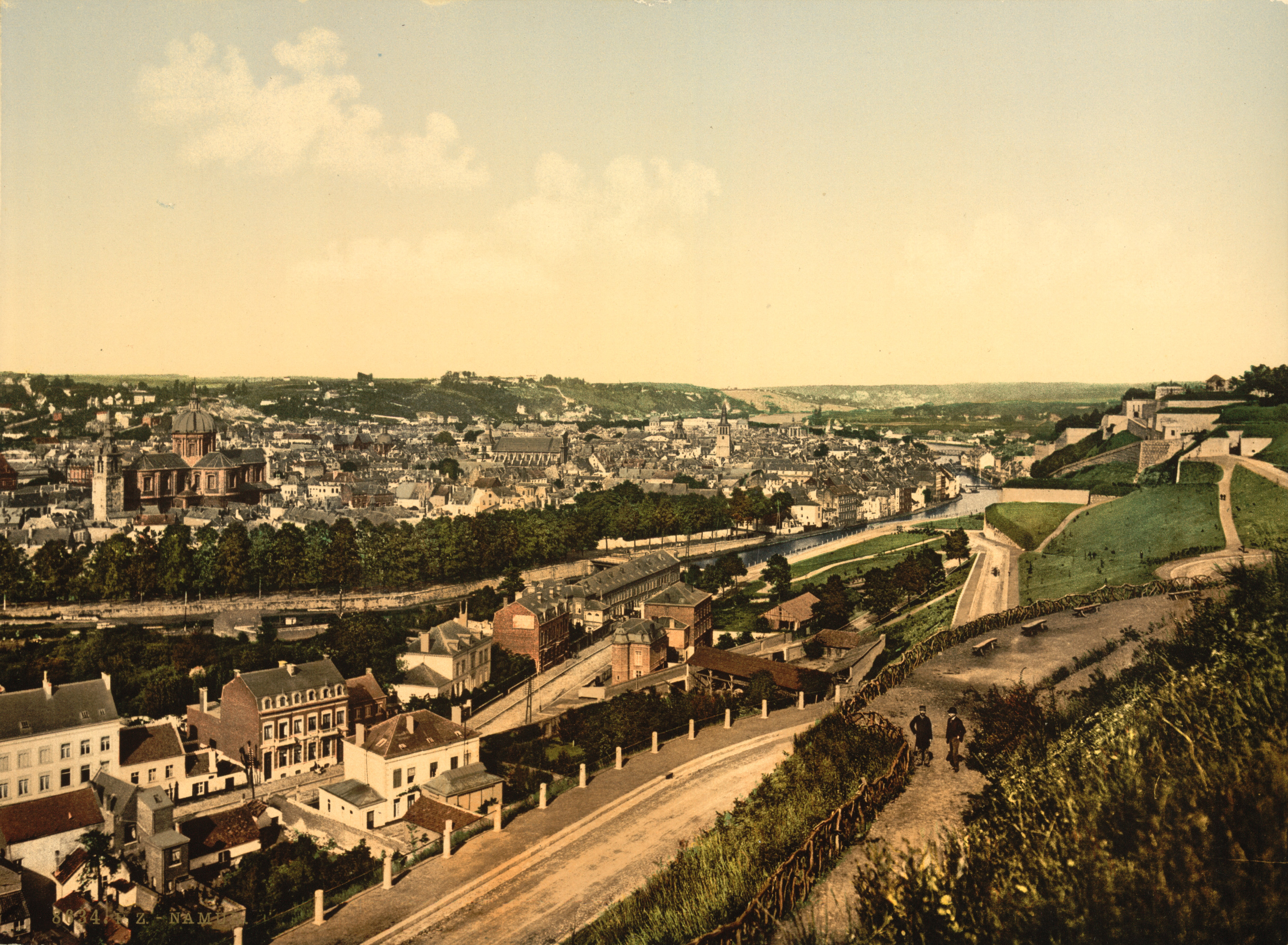 Between ca. 1890 and ca. 1900. Print no. 8634. Views of architecture and other sites in Belgium 1 photomechanical print : photochrom color. Library of Congress Prints and Photographs Division Washington D.C. 20540 USA Namur Belgium between ca. 1890 and ca. 1900. Print no. 8634. Views of architecture and other sites in Belgium 1 photomechanical print : photochrom color. Library of Congress Prints and Photographs Division Washington D.C. 20540 USA